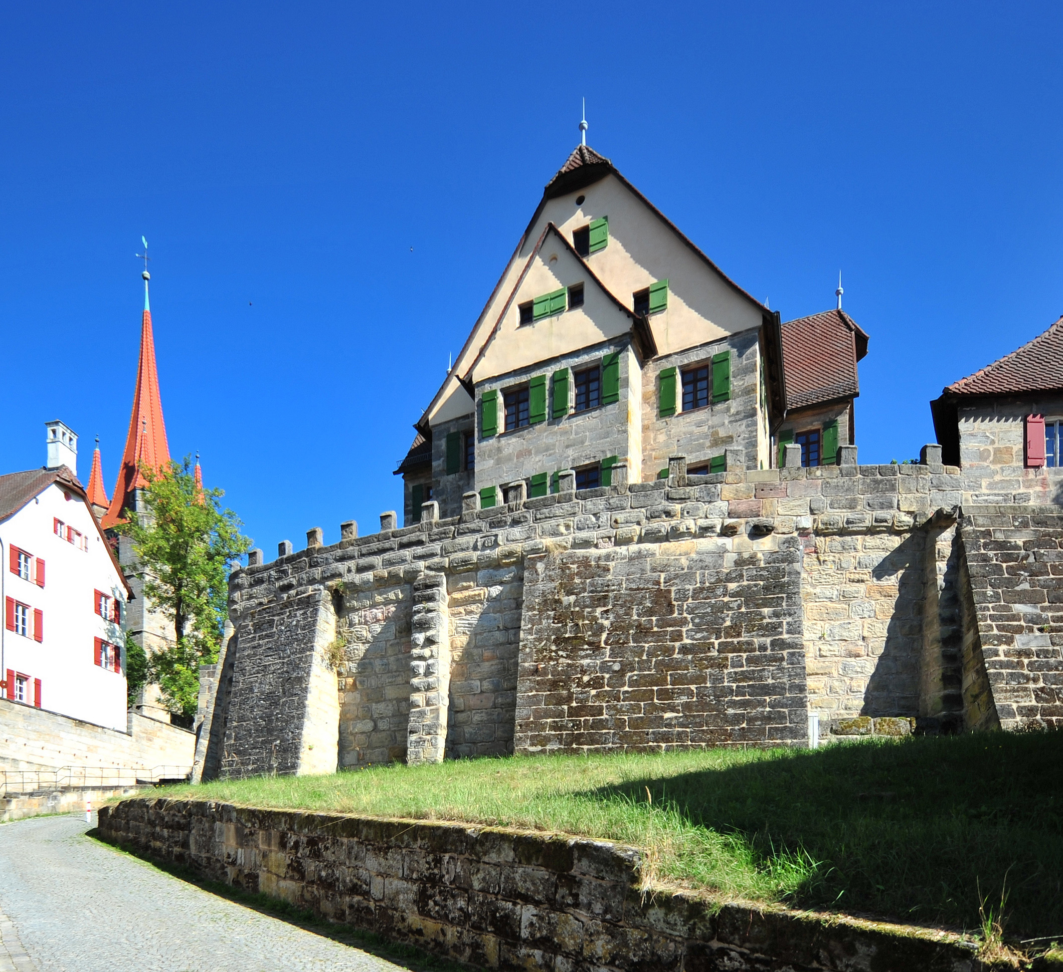 Heroldsberg: Grünes Schloss This is a photograph of an architectural monument.